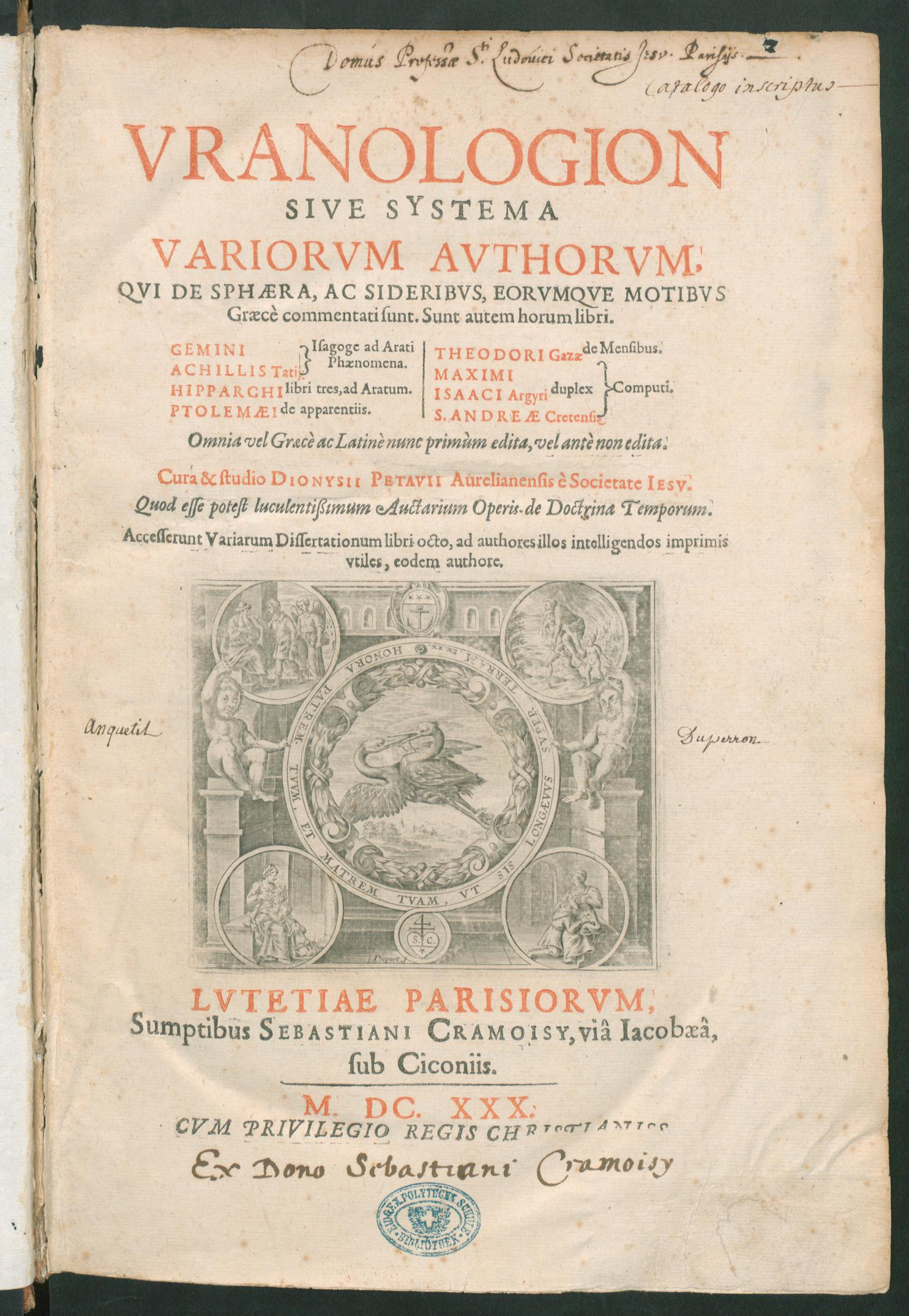 Uranologion is an astronomy anthology covering works by the ancient Greek and Byzantine astronomers. Written by Denis Pétau and published in Paris, 1630.